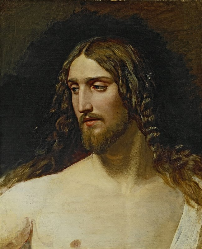 Head of Christ (study)